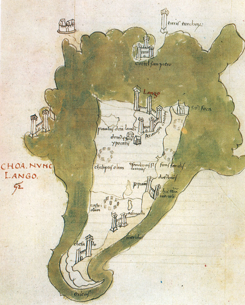 Cristoforo Buondelmonti, Liber Insularum Archipelagi (1420), Kos island, Aegean Sea